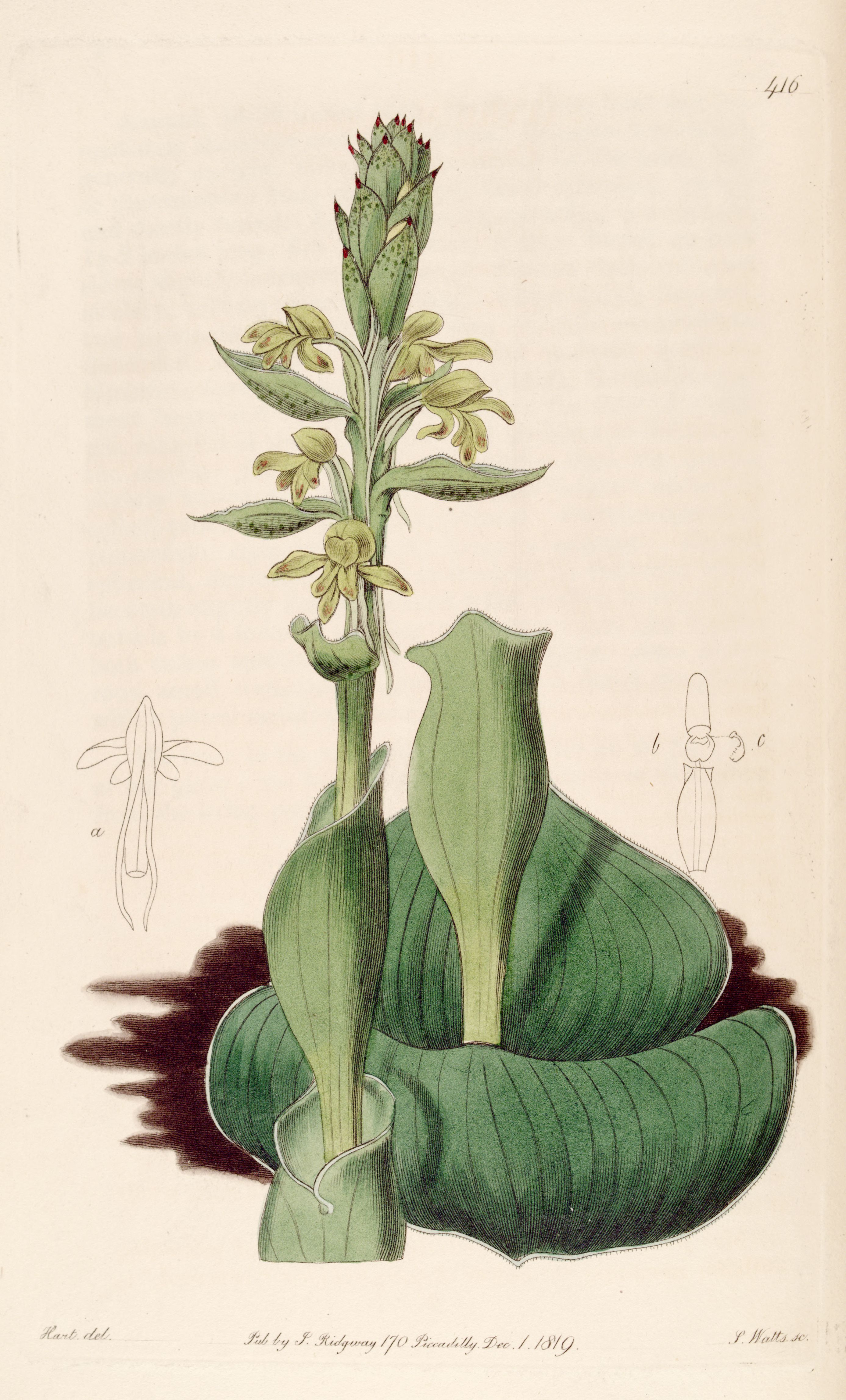 Illustration of Satyrium bicorne (as syn. Satyrium cucullatum)